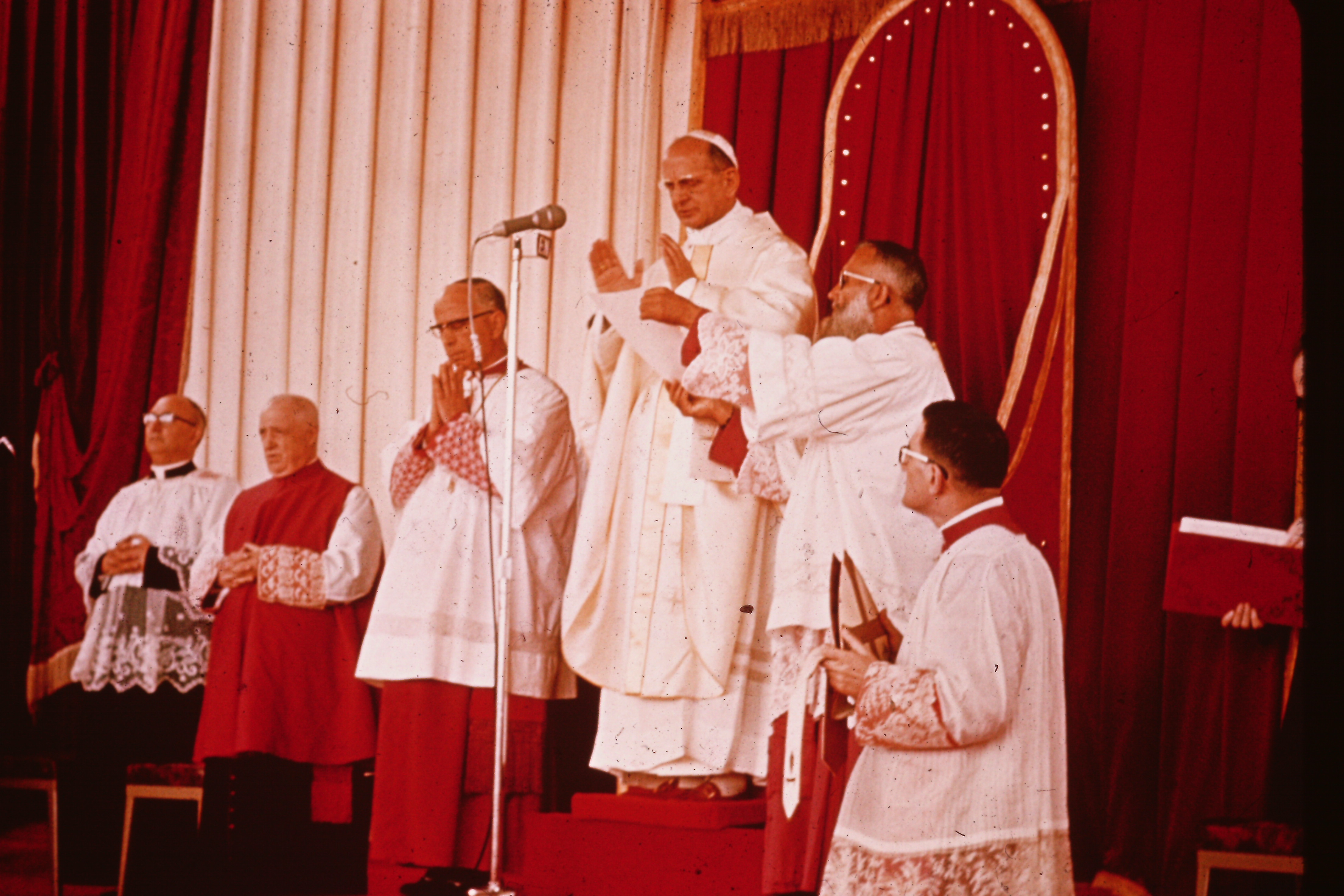 João Pereira Venâncio, roman-catholic bishop